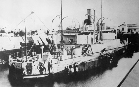 AWM caption : Photograph showing stern view of Victorian colonial breastwork monitor HMVS Cerberus at Williamstown, Victoria. She is in her original configuration with two pole masts and extensions to the flying deck.